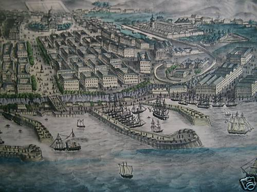 View of Odessa (city and harbour) as it was in imagination of unknown European author in the middle of XIX century, during years of Eastern War (1853-1855). Coloured lithography.